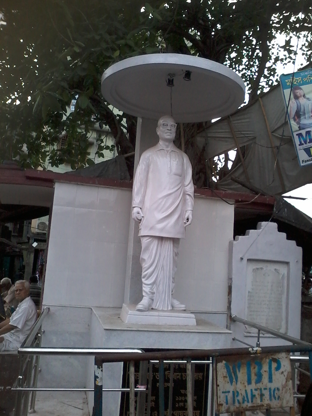 West Bengal's Ex-Chief Minister Dr. B. C. Roy's Statue at the crossing of D. P. Sasmal Rd. and N. S. Dutta Rd., Howrah.